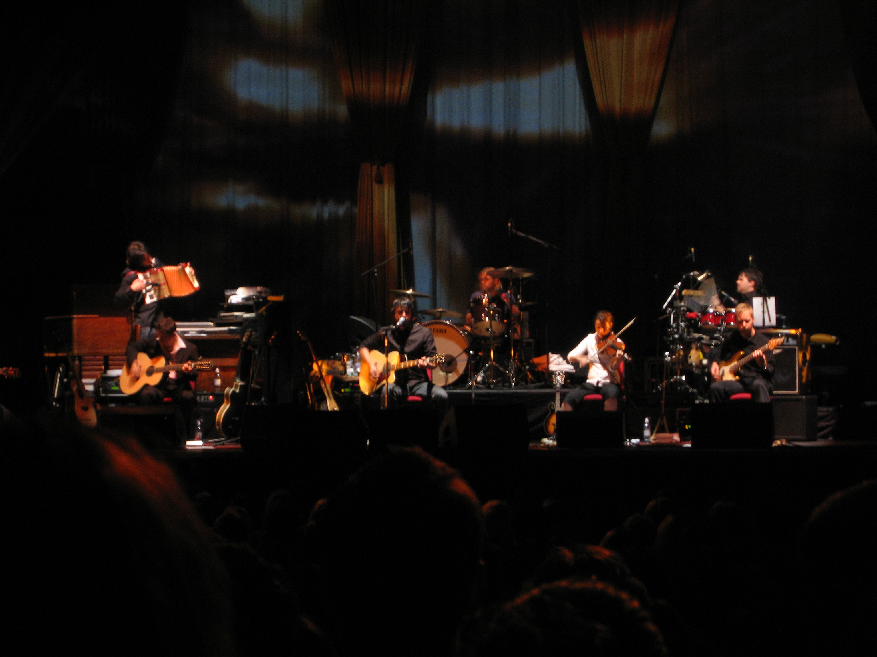 Foo Fighters playing an acoustic set in London (Victoria)